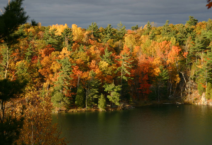 Pink lake in the fall. Author: Wilder Mendez.